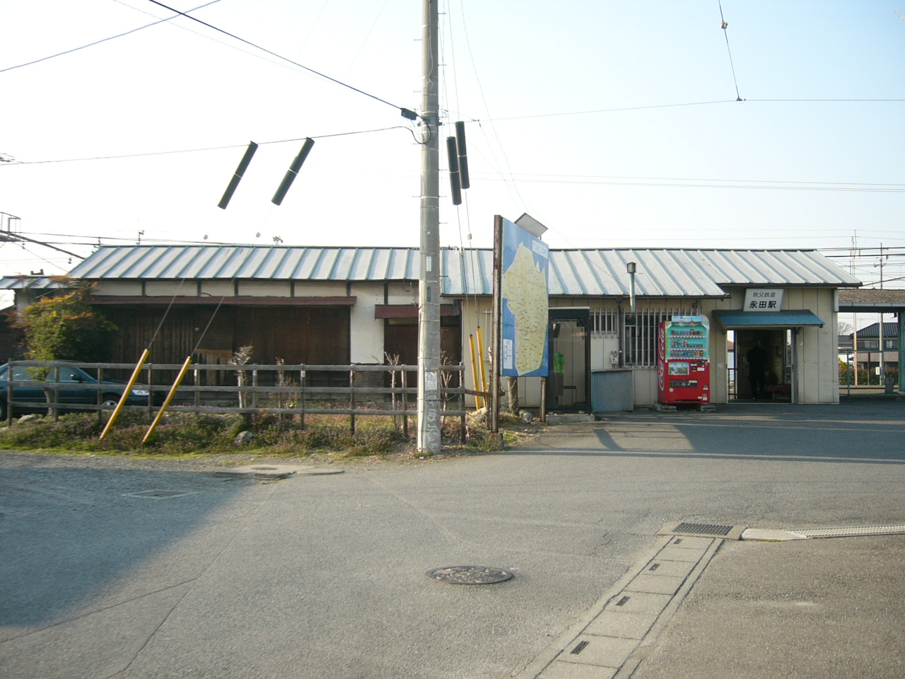 Nagata Station on the Chichibu Main Line in Saitama Prefecture, Japan